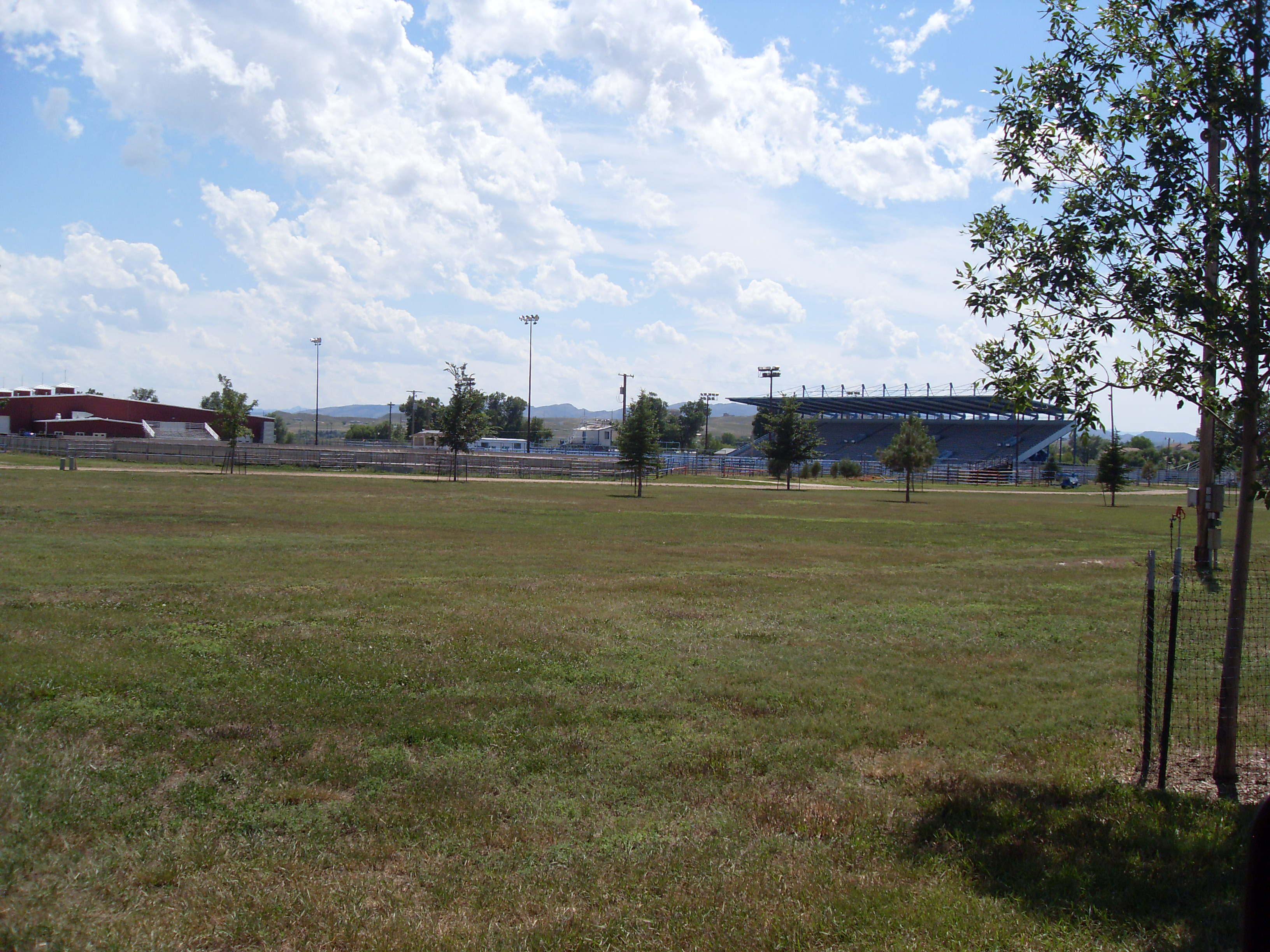 Main tribune of the Wyoming State Fair in Douglas